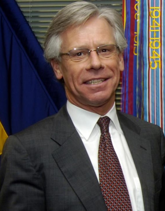 Knut Vollebæk, former Foreign secretary of Norway, Ambassador to the U.S.